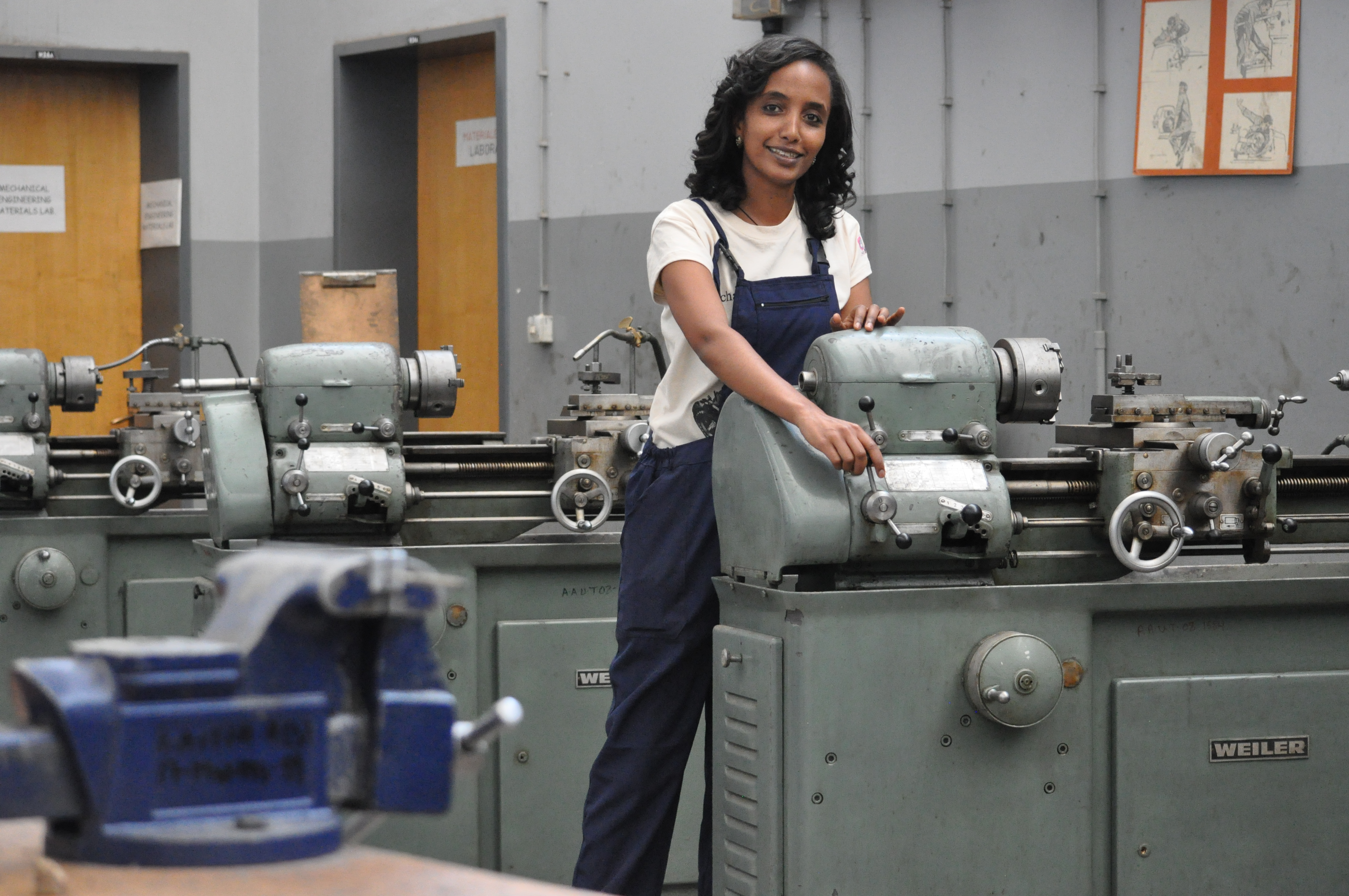 Woman at work in a metal workshop